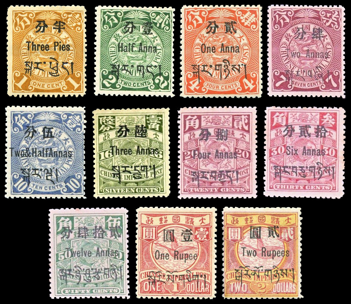 Chinese Imperial Post Coiling Dragon Stamp Collection with Overprint for Tibet. The face value of the stamp is in scripts in three rows: Chinese, English and Tibetan (top to bottom).